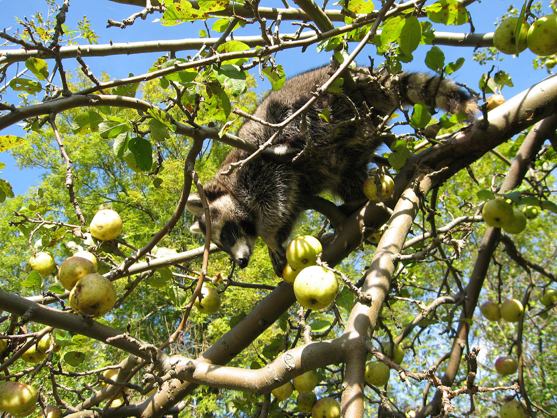 The raccoon Molly eating apples fresh from the tree.